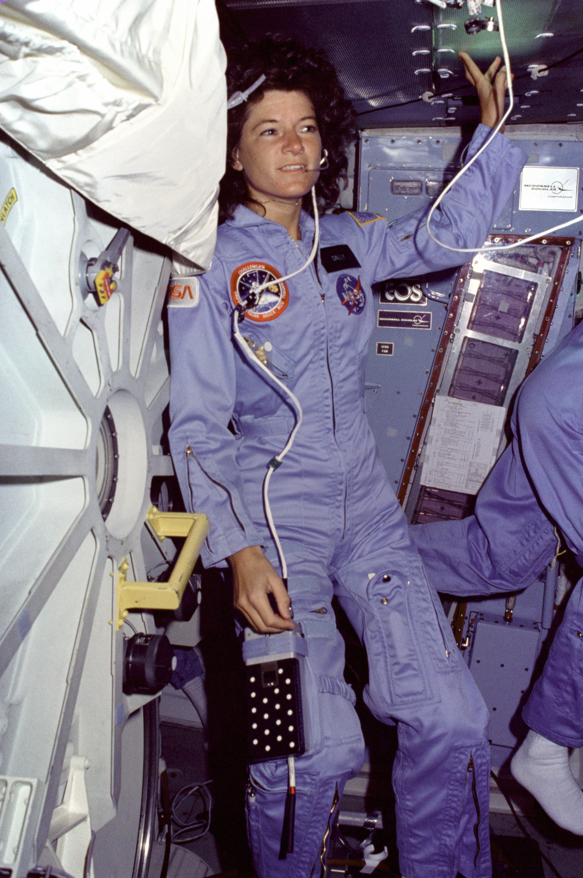 On Challenger's middeck, Mission Specialist (MS) Sally Ride, wearing light blue flight coveralls and communications headset, floats alongside the middeck airlock hatch.